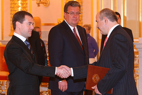 THE KREMLIN, MOSCOW. Presentation ceremony of foreign ambassadors’ letters of credentials. Ambassador of the Republic of South Ossetia Dmitry Medoyev presents his letter of credentials to the President of Russia.